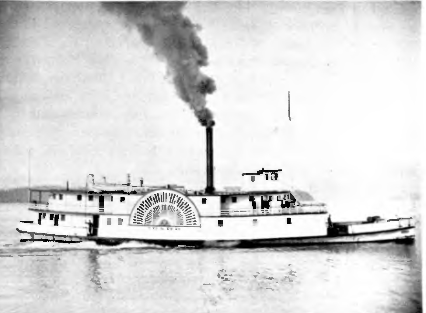 photograph of Idaho, sidewheel steamboat built at Cascades on Columbia River, 1860, later operated on Puget Sound